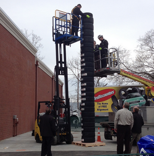 On March 27 the Cincinnati-based dealership unofficially broke the world record for the tallest tire stack with a single column of Falken-brand tires that reached 19.95 feet, with the measurements confirmed by an independent surveyor.